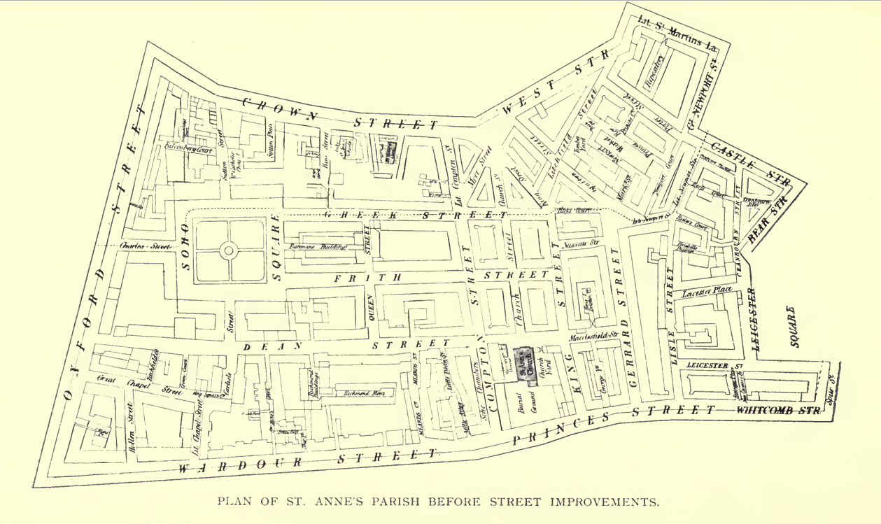 Plan of parish of St Anne from "Two centuries of Soho, its institutions, firms, and amusements; (1898)".